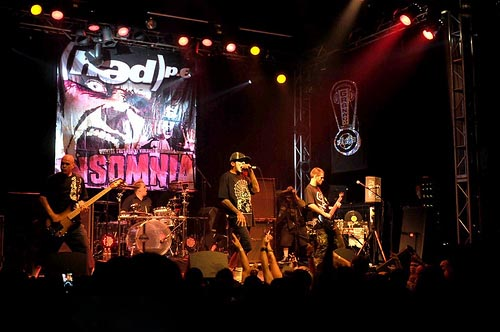 The band performing live on the D.I.Y. tour in summer 2008.